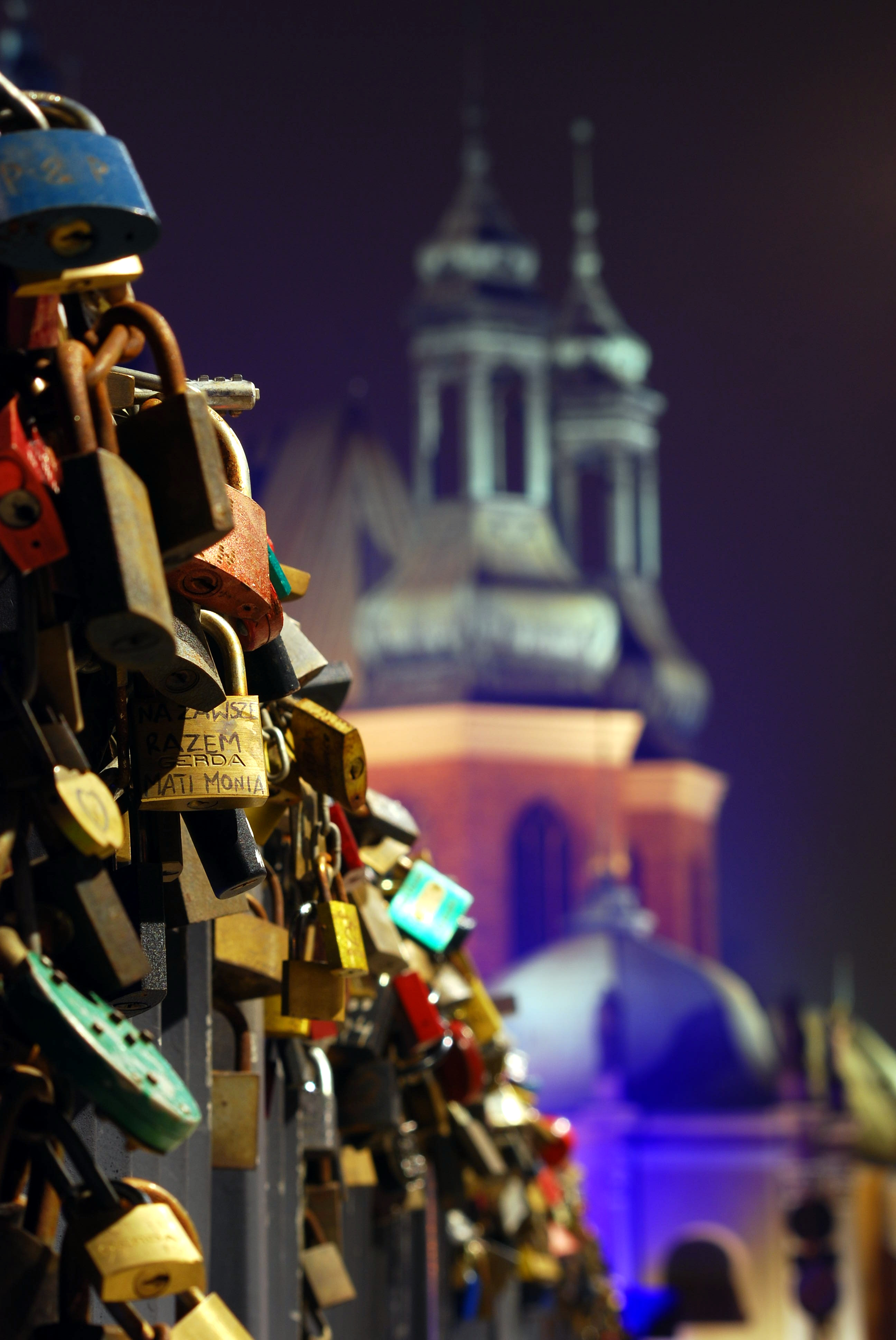 Padlocks Jordan Bishop on the Bridge at the Cathedral Island in Poznan